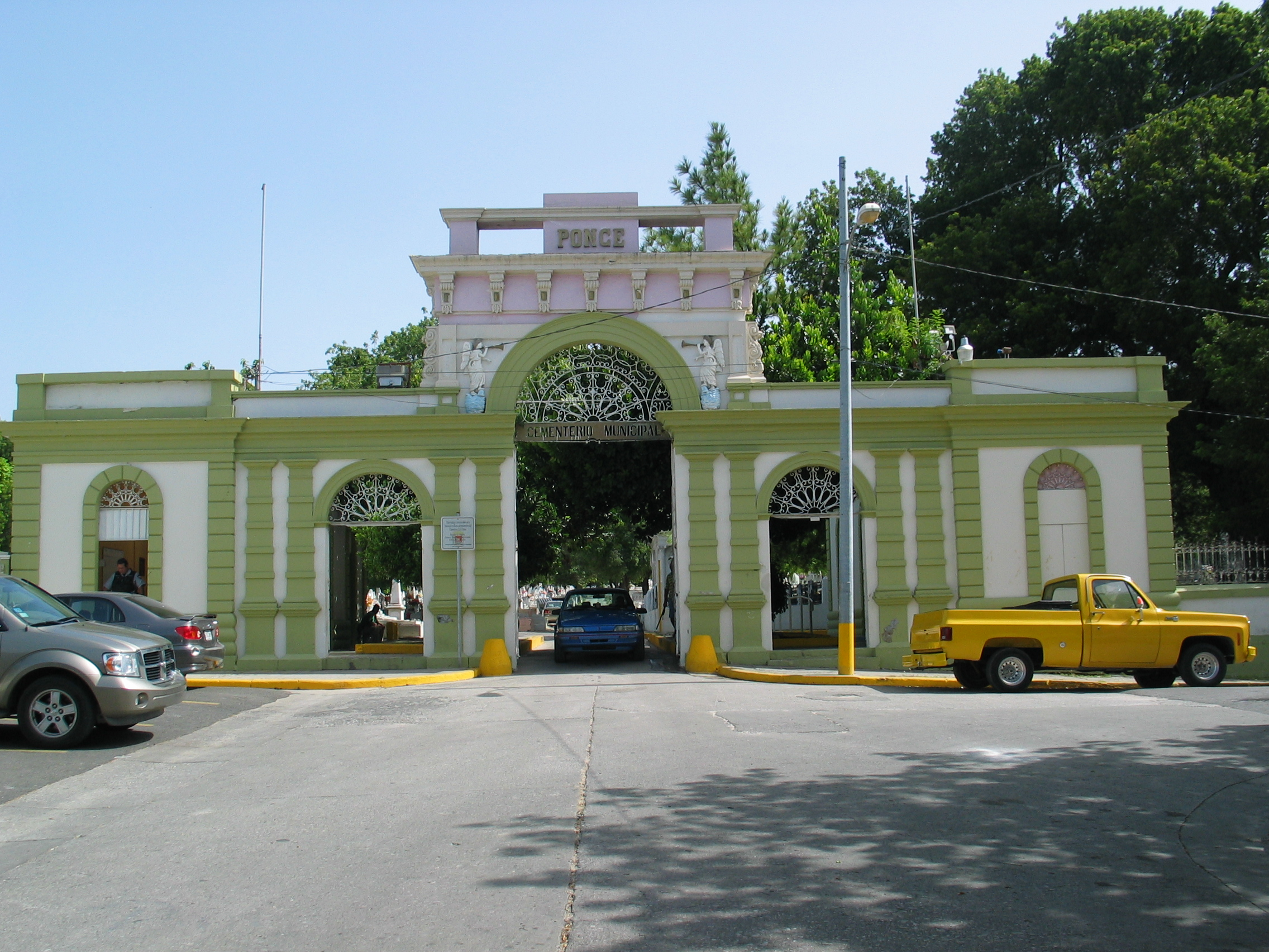 Entrada al Cementerio Civil de Ponce, en Barrio Portugues Urbano, Ponce, Puerto Rico (IMG_2994)